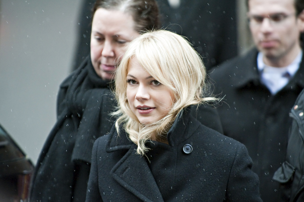 American actress Michelle Williams leaving the press conference for the film Shutter Island in the snow.